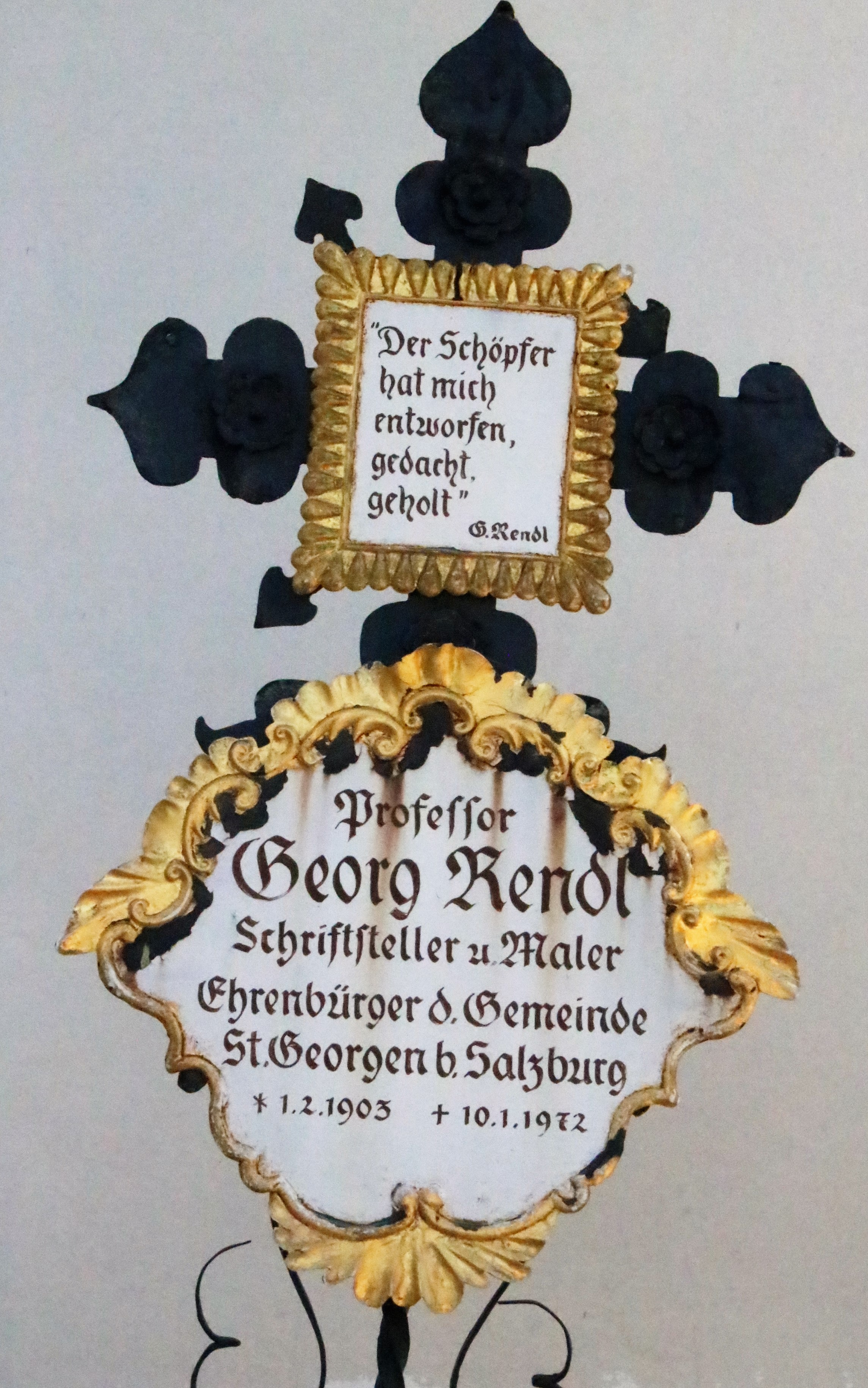 church in Sankt Georgen bei Salzburg